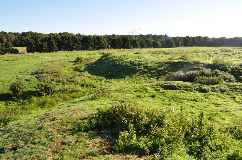 Horsford Castle, near to Horsford, Norfolk, Great Britain. A view of the 11th century motte and bailey castle. Consisting of a deep ditch, large bailey and low motte. Founded by Robert Malet or possibly his tenant Walter of Caen. After the main use of defence became less important the castle probably became a hunting lodge. Abandoned after 1431, the bailey was ploughed in the 1980s. Still well worth a look and access is good.